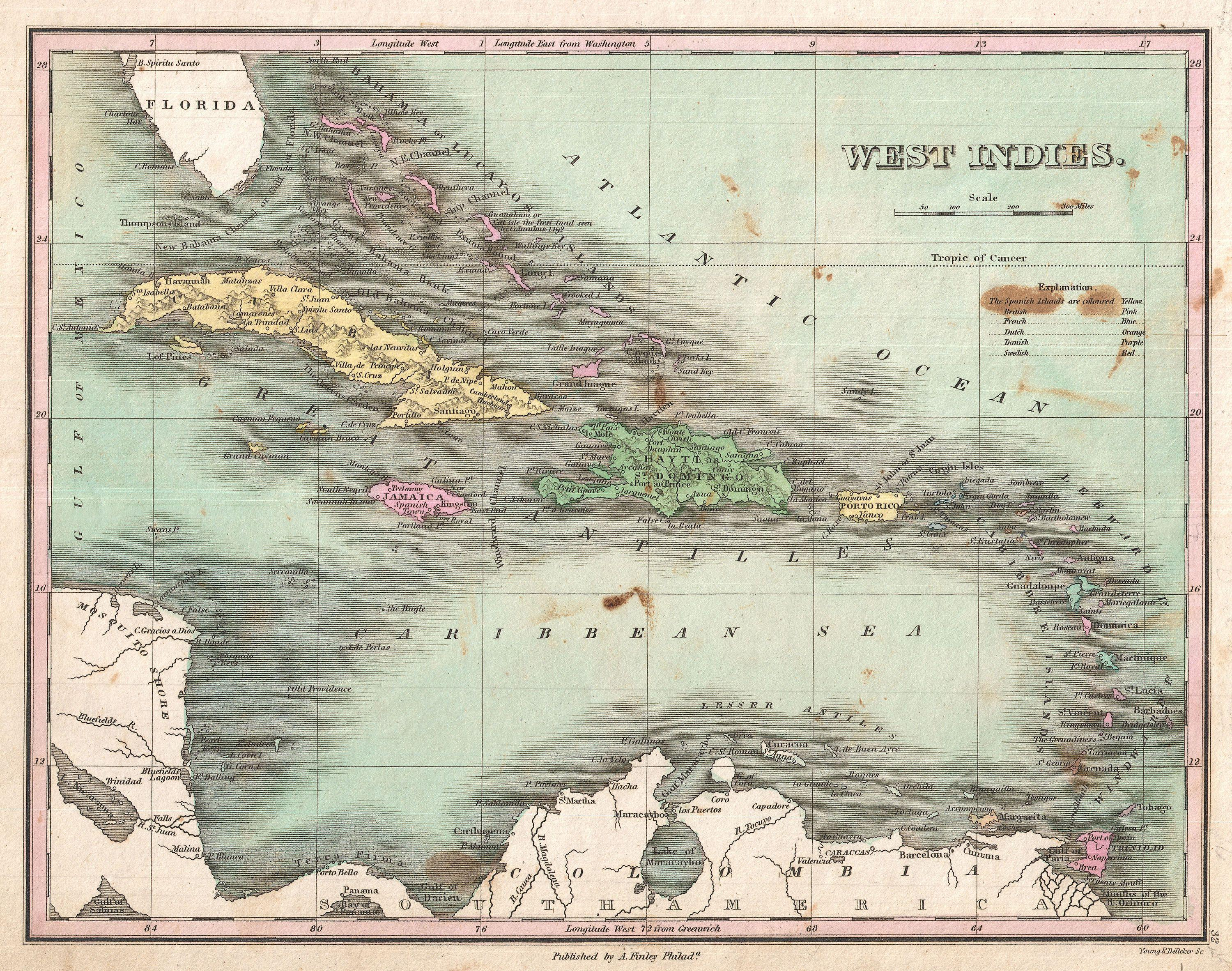 This is Finley’s desirable 1827 map of the West Indies and Caribbean. Shows the Greater and LEsser Antilles as well as the Bahamas and portions of the Spanish Main. Islands are color coded according to their European claimants. Shows cities, forts, bays, rivers, roads, and some topographical features. It the Bahamas, Finley identifies Guanaham or Cat Isle, the first land in the America to be sighted by Columbus. Mile scales and title in upper right quadrant. Engraved by Young and Delleker for the 1827 edition of Anthony Finley's General Atlas .